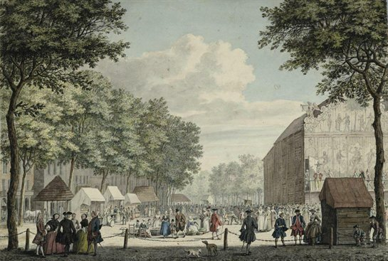 View on the Vredenburg in the city of Utrecht (Netherlands) as a square from the southeast around 1760. In the drawing a funfair is taking place with on the rightside a large tent for theatre